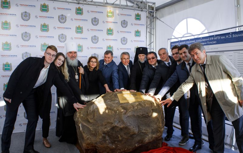 Первый камень кампуса КФ МГТУ им.Баумана